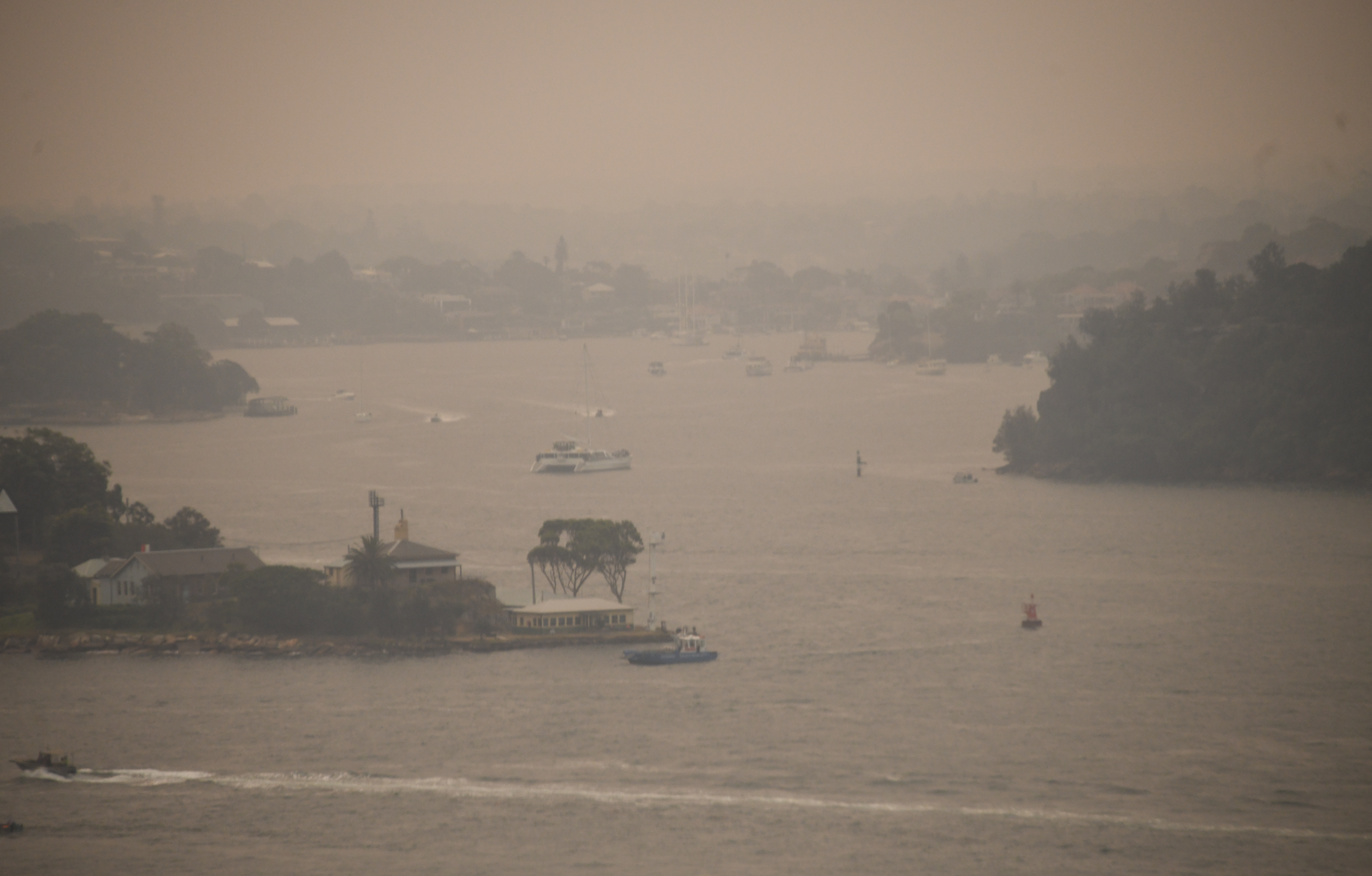 Smoke haze from bushfires in Blue Mountains, seen from Sydney Harbour Bridge